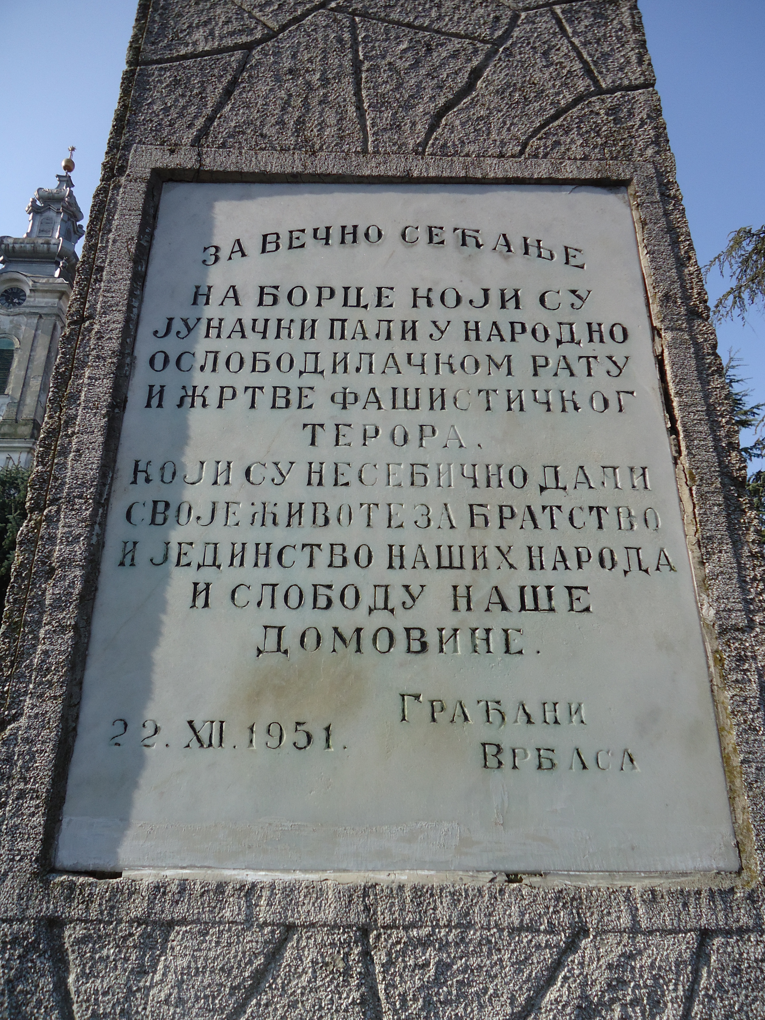 Table with inscription